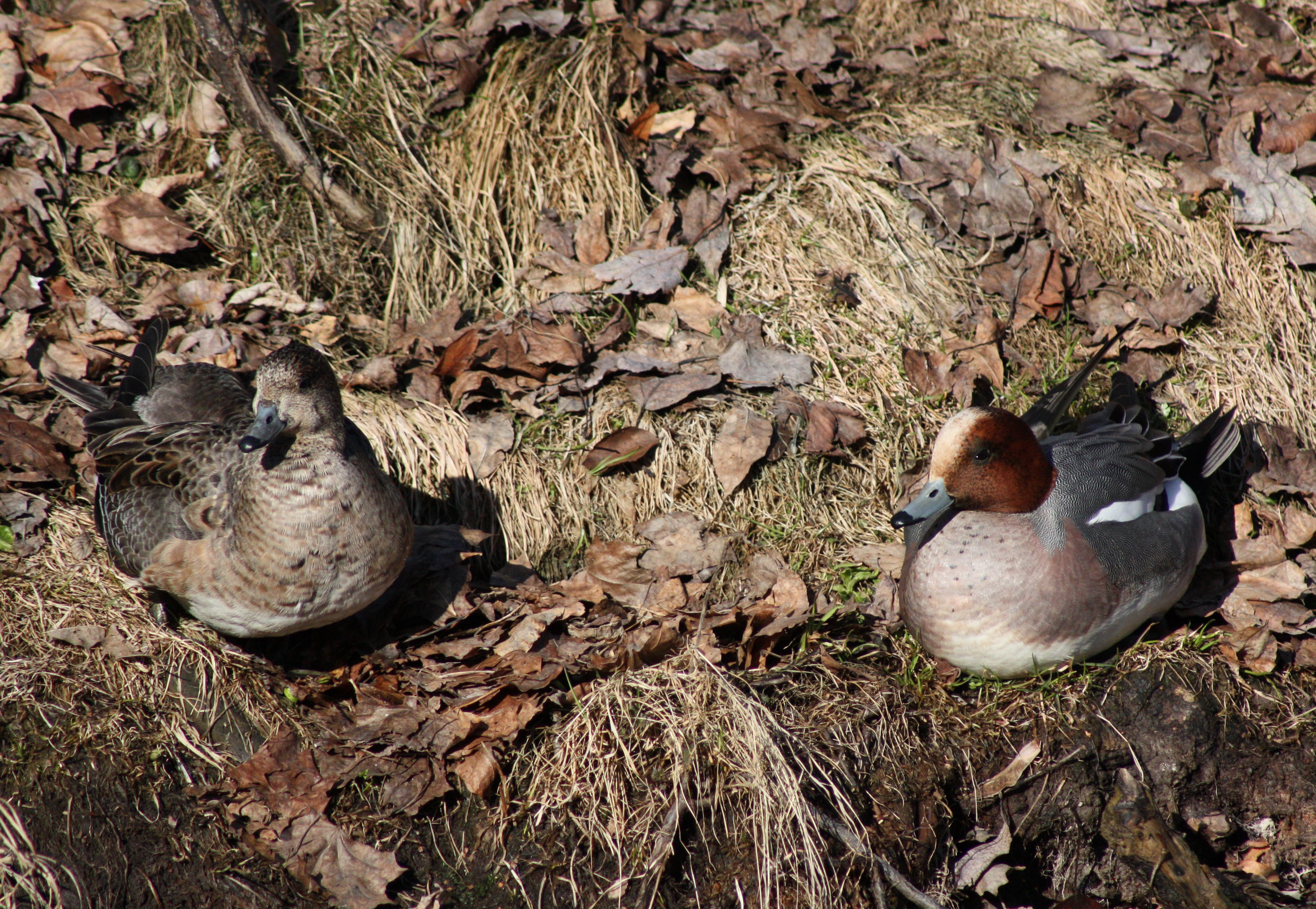 Eurasian widgeon couple (Anas penelope) in Hupisaaret islands park in Oulu.